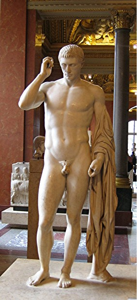 Funeral and honorific statue of Marcellus (d. 23 BC), nephew of Augustus, represented as Hermes. Greek marble, ca. 20 BC.